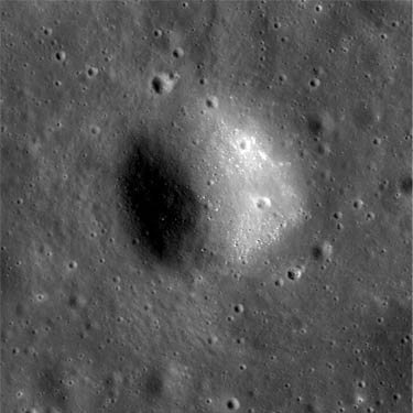 LROC NAC image M104447576LC